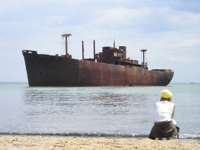 The wreck of E Evangelia, a Greek-owned refrigerated cargo ship built in Belfast in 1942 and beached in Costineşti, Romania in 1968